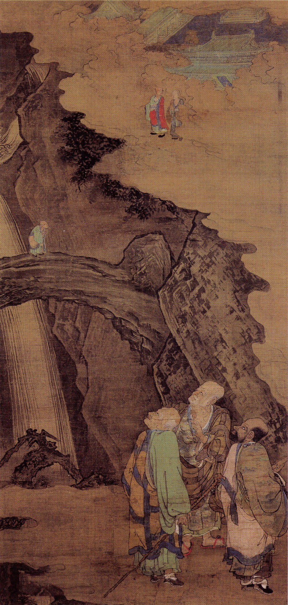 Rock Bridge at Tiantai Mountain - Hanging scroll, ink and color on silk, 109.4 x 52.4 cm. This is part of the 500 Luohan collection.